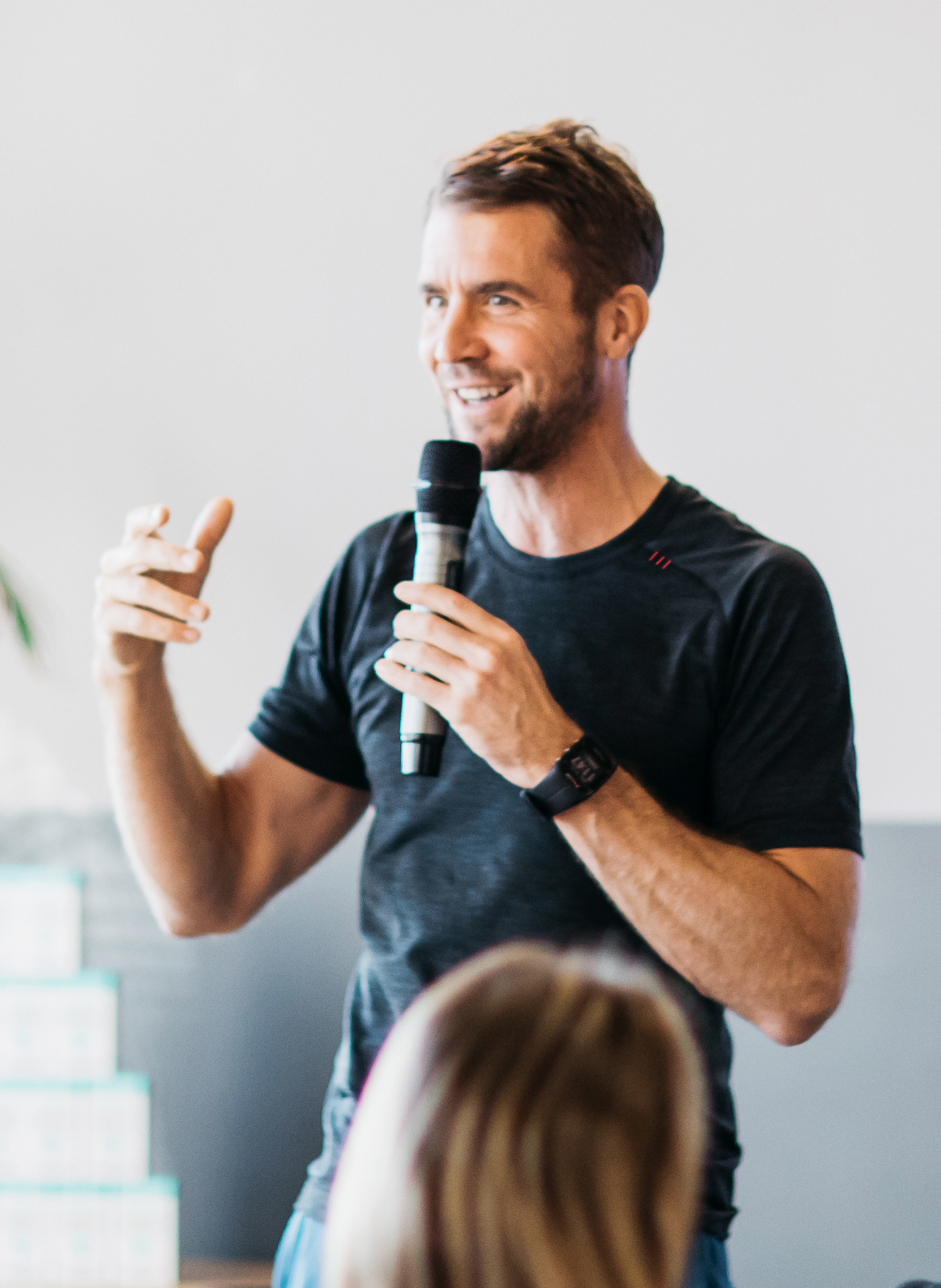 Olympic silver medalist and executive coach Leon Taylor talks to a group about stress and mental wellness